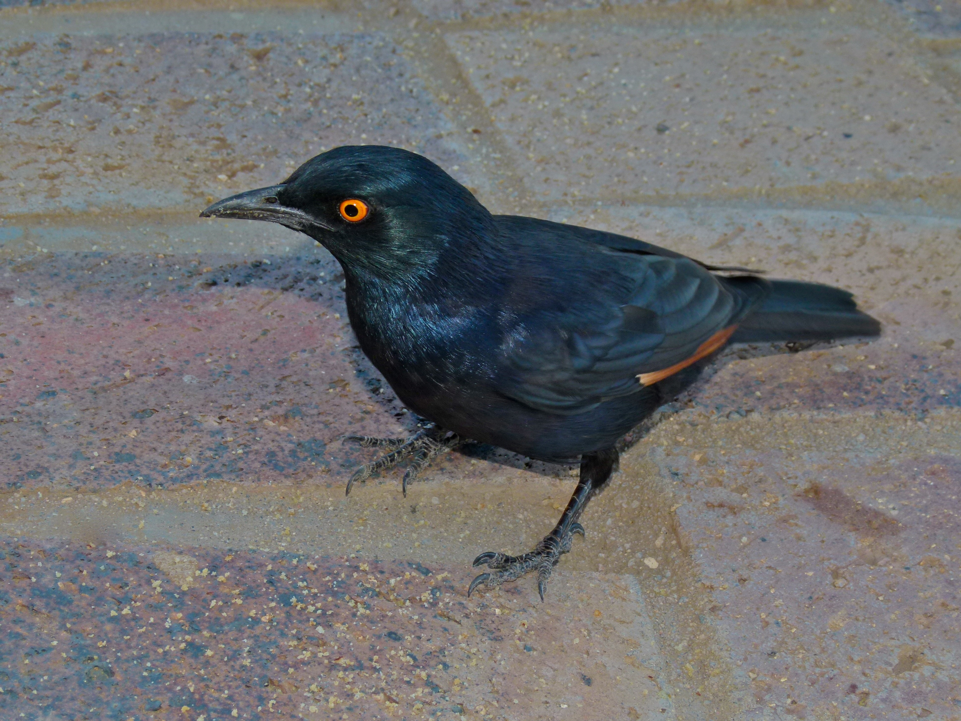 Augrabies National Park, SOUTH AFRICA